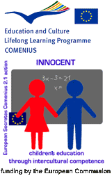 Logo of the Innocent Project